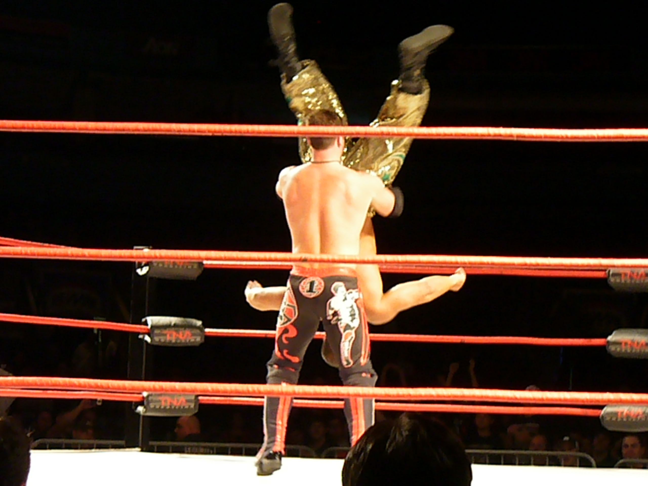 AJ Styles setting up Sheik Abdul Bashir for the Styles Clash